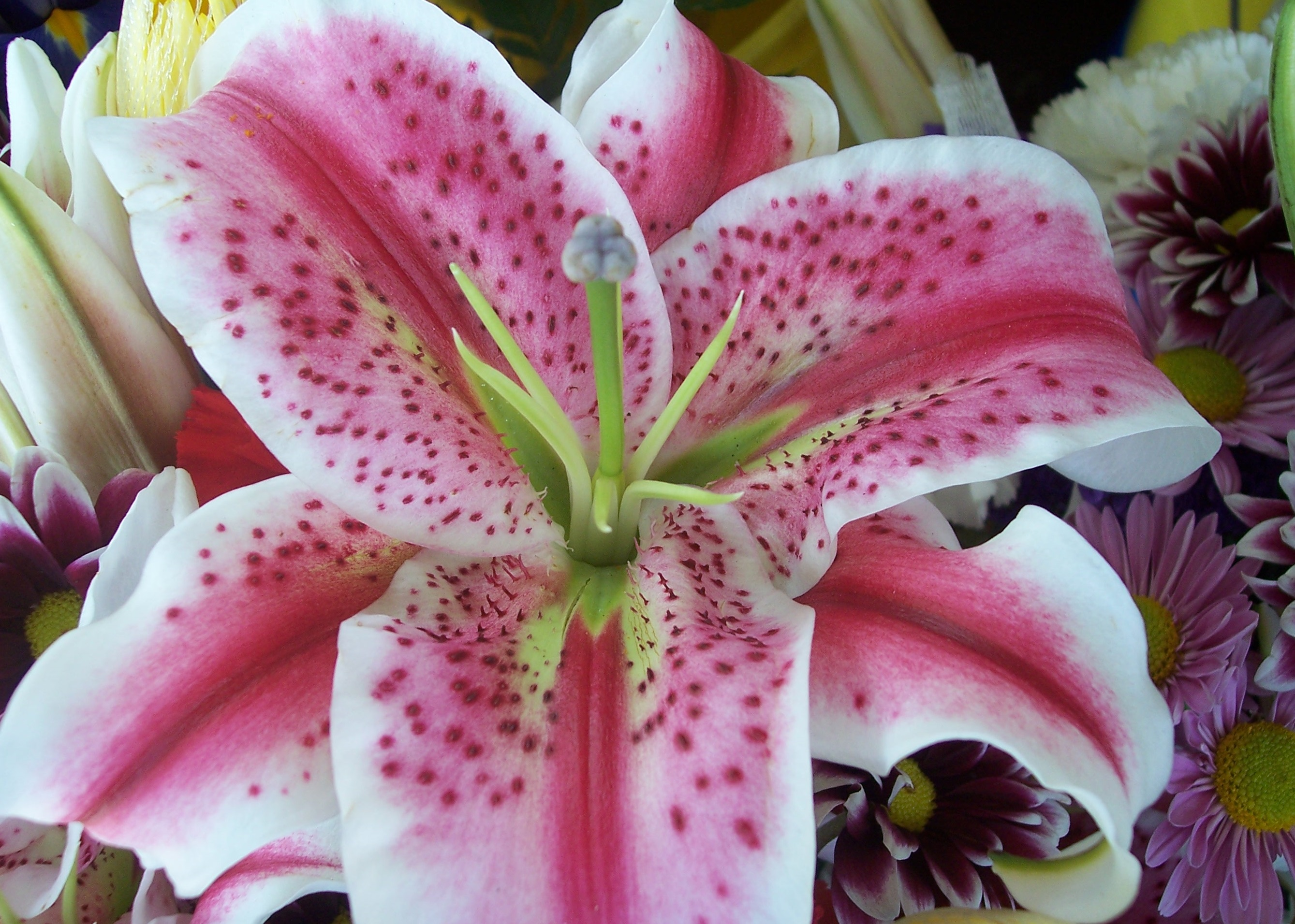 A flower from the Smithsonian gardens